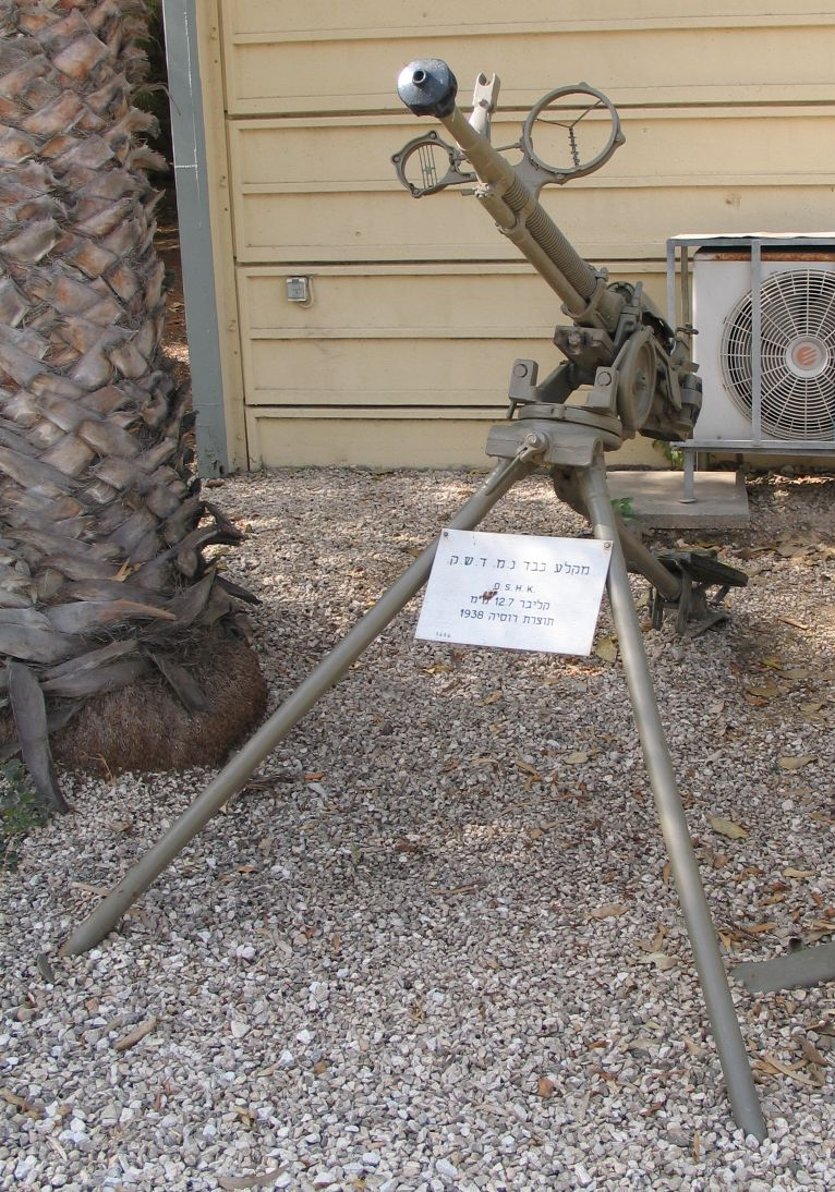 DShK 12.7 mm machine gun in Batey ha-Osef Museum, Tel Aviv, Israel